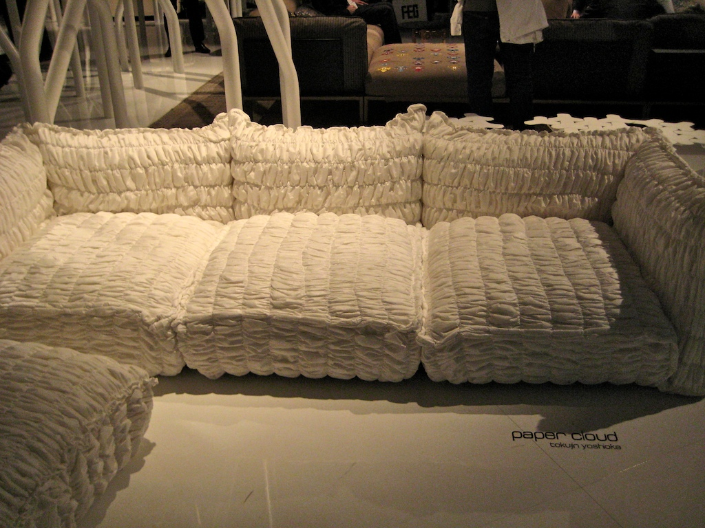 Paper Cloud sofa by Tokujin Yoshioka (Moroso s.p.a.) displayed at Salone Internazionale del Mobile 2009, Milan, Italy.